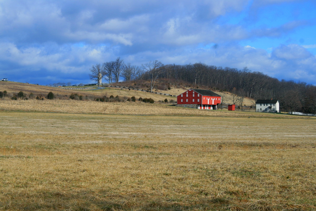 Gettysburg, Oak Hill and Mclean farm